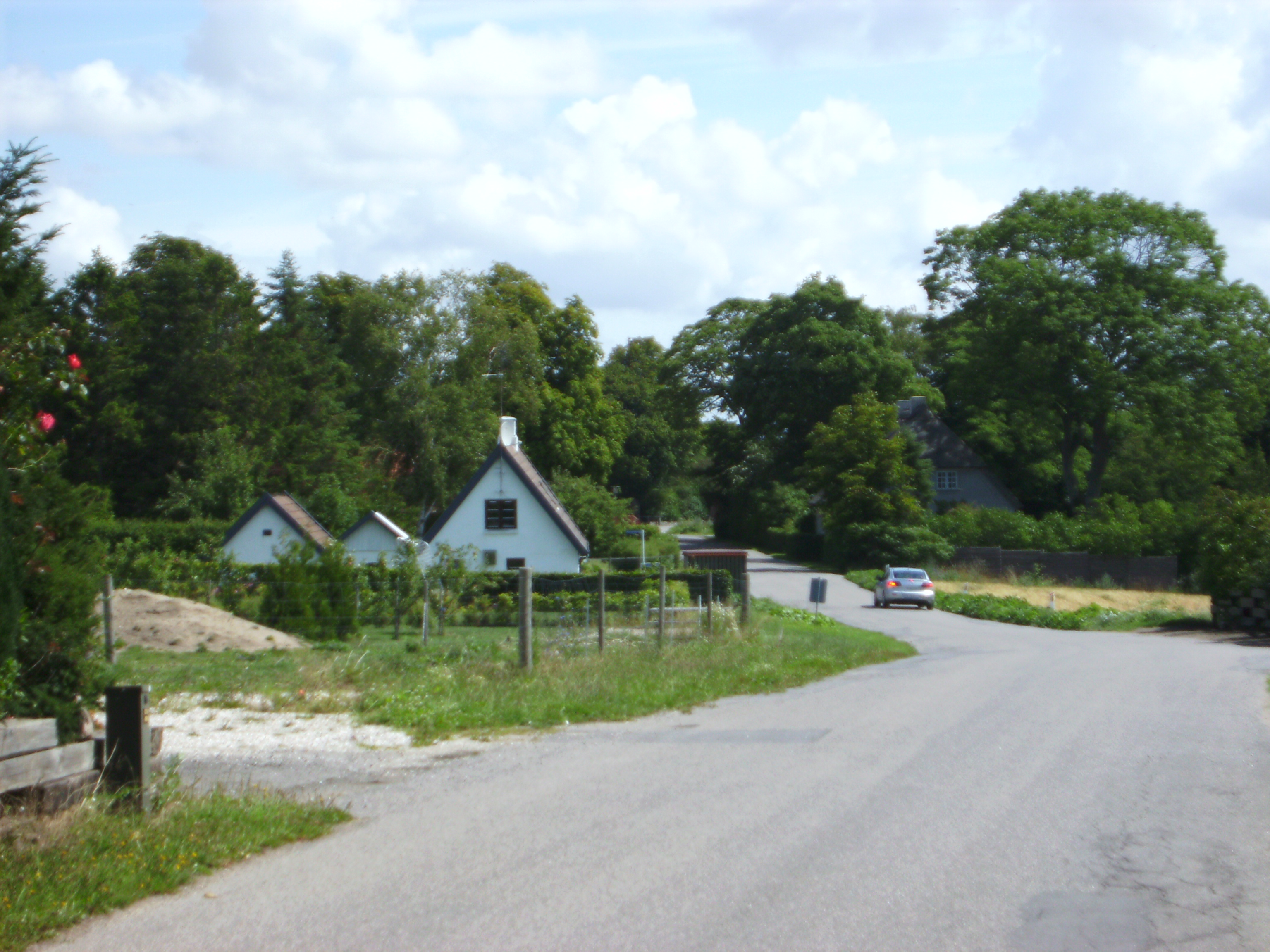 Godsted (village in Denmark)